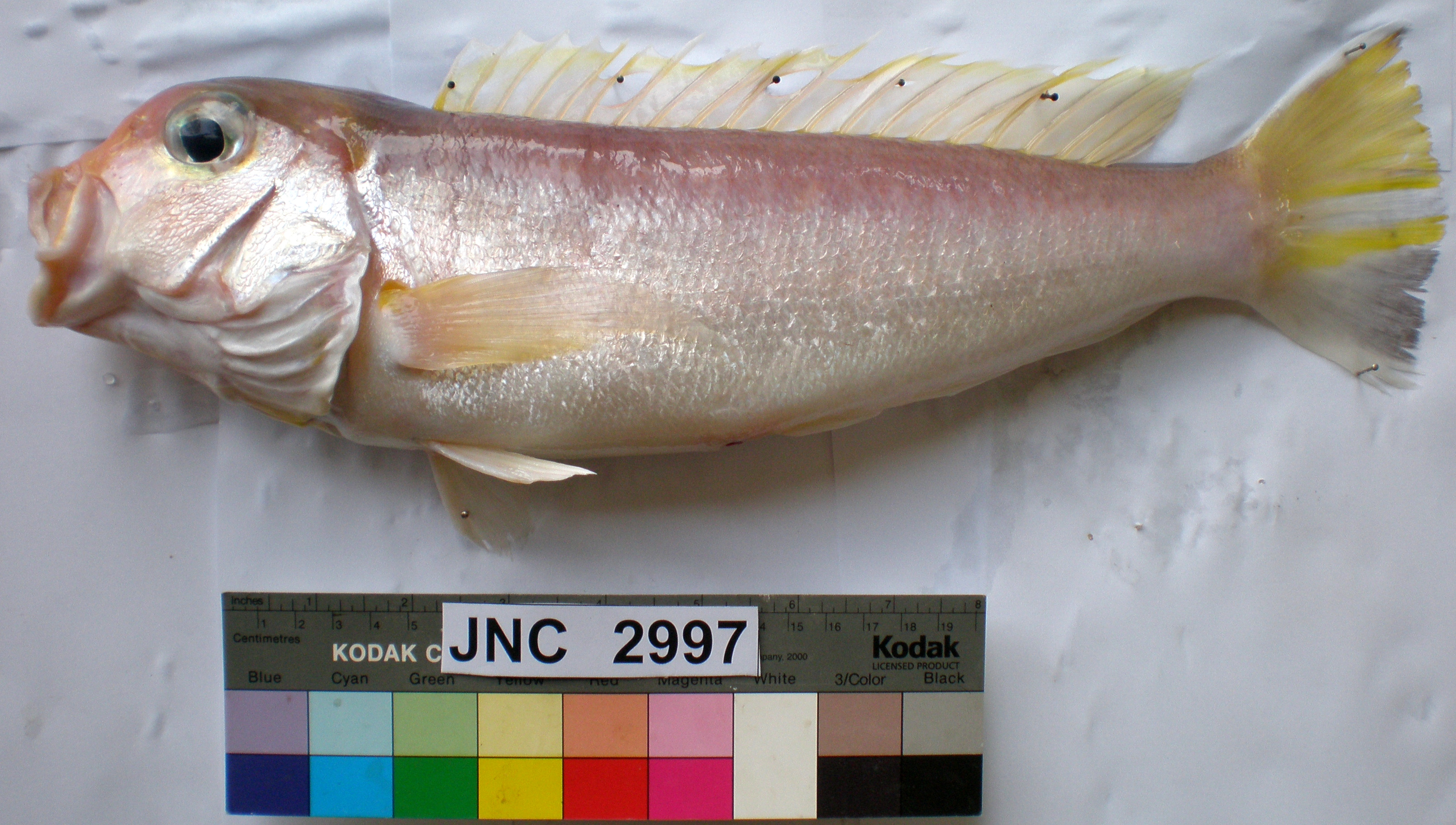 Branchiostegus wardi (Malacanthidae), lateral view of body. Locality: Off Récif Toombo, off Nouméa, New Caledonia, depth 250 m, coordinates: 22°35'041S, 166°29'104E. Fork Length 383 mm, Weight 645 grams. Date: 07-07-2009. This photograph is also in FishBase.